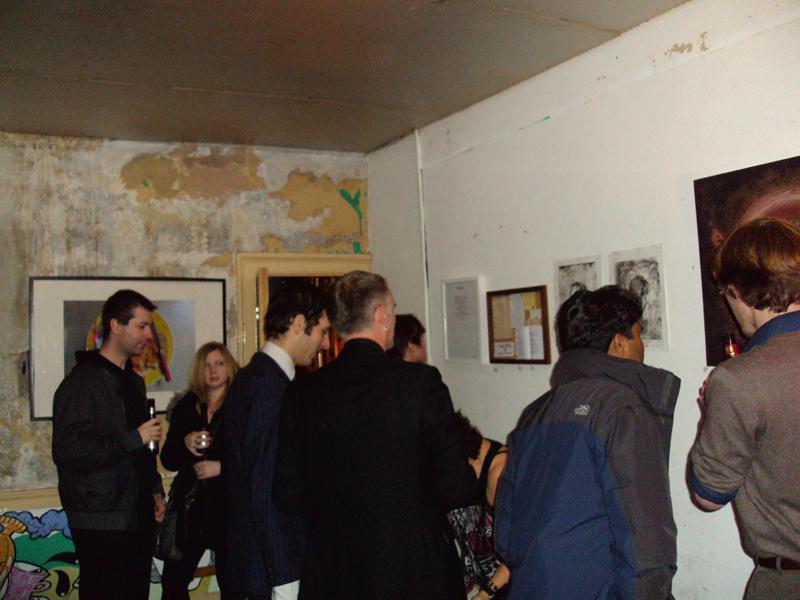 Intentist Exhibition 2010, Hoxton